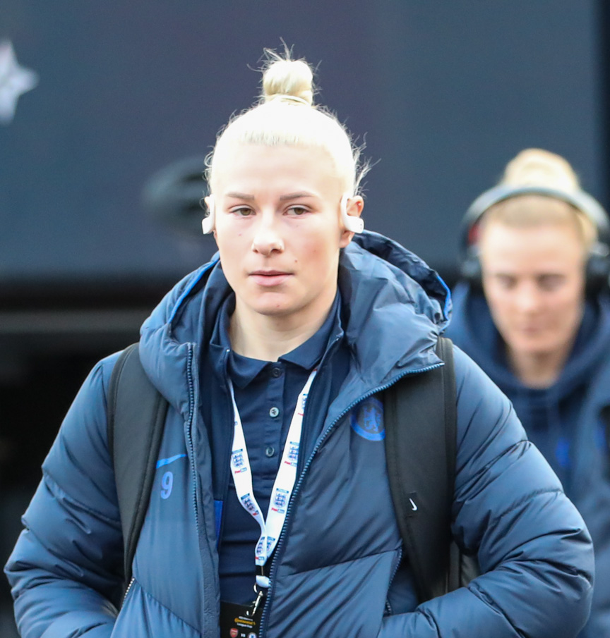 Bethany England arriving for the 2019–20 FA Women's Continental Typres League Cup Final.